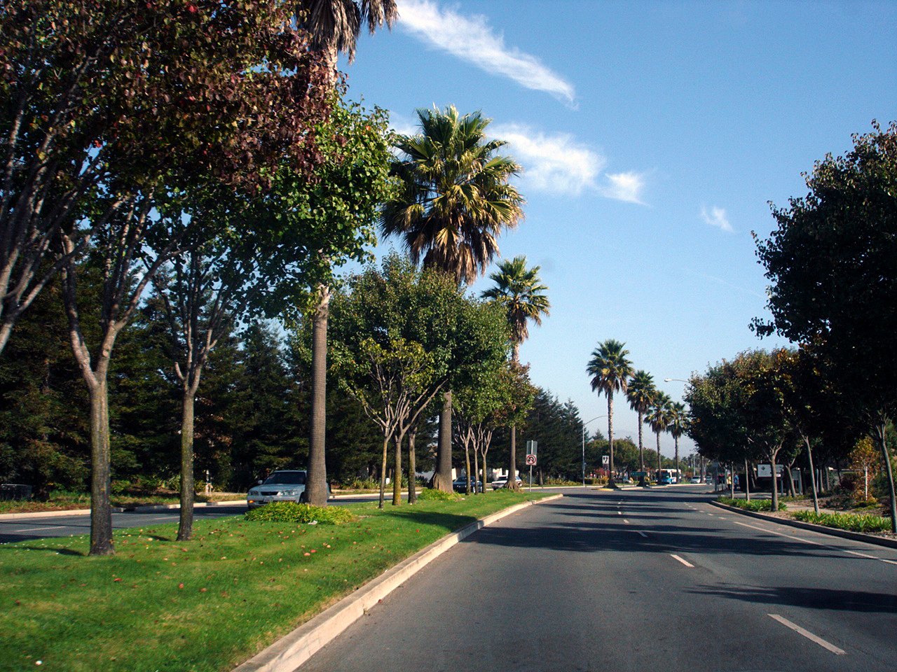 Harden Parkways between N. Main street and McKinnon Street in Salinas, California